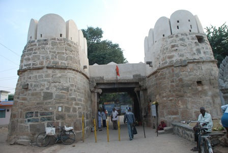 this is near fron penukonda mandal, in anantapur district. this one of the visting place in anantapur